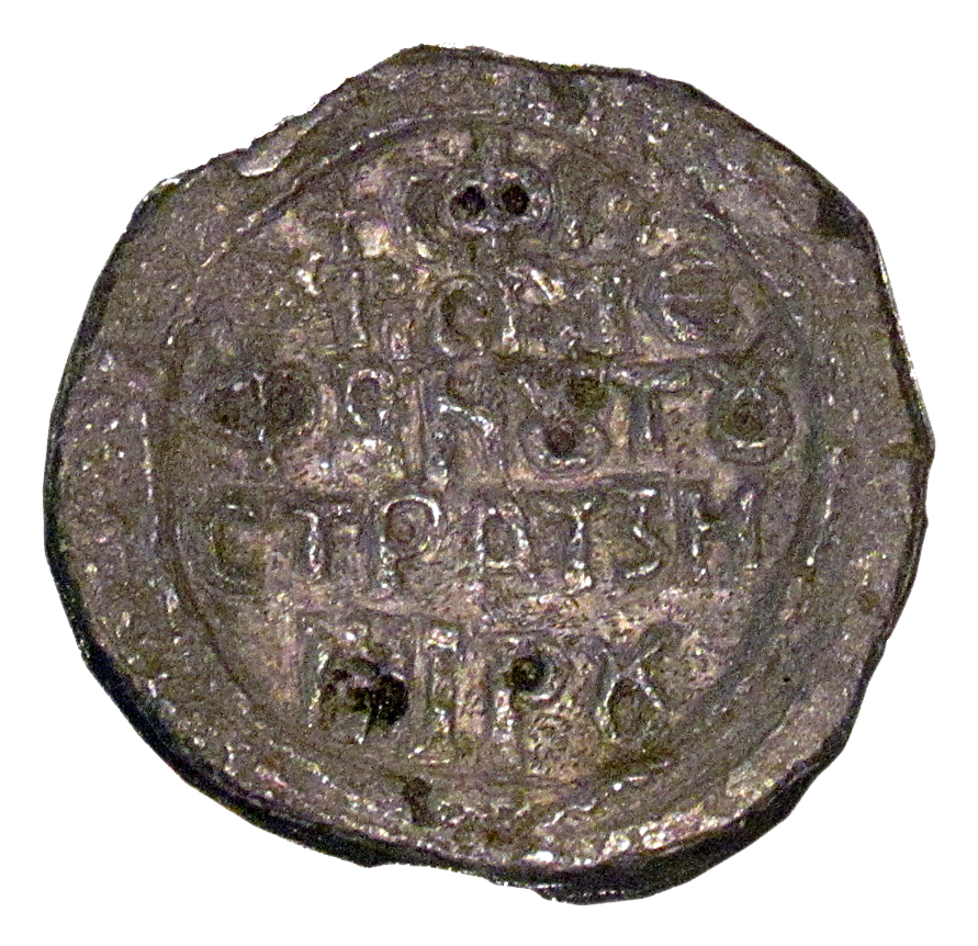 Seal of Stefan SerbianZhupan Stracimir, 1168-1189